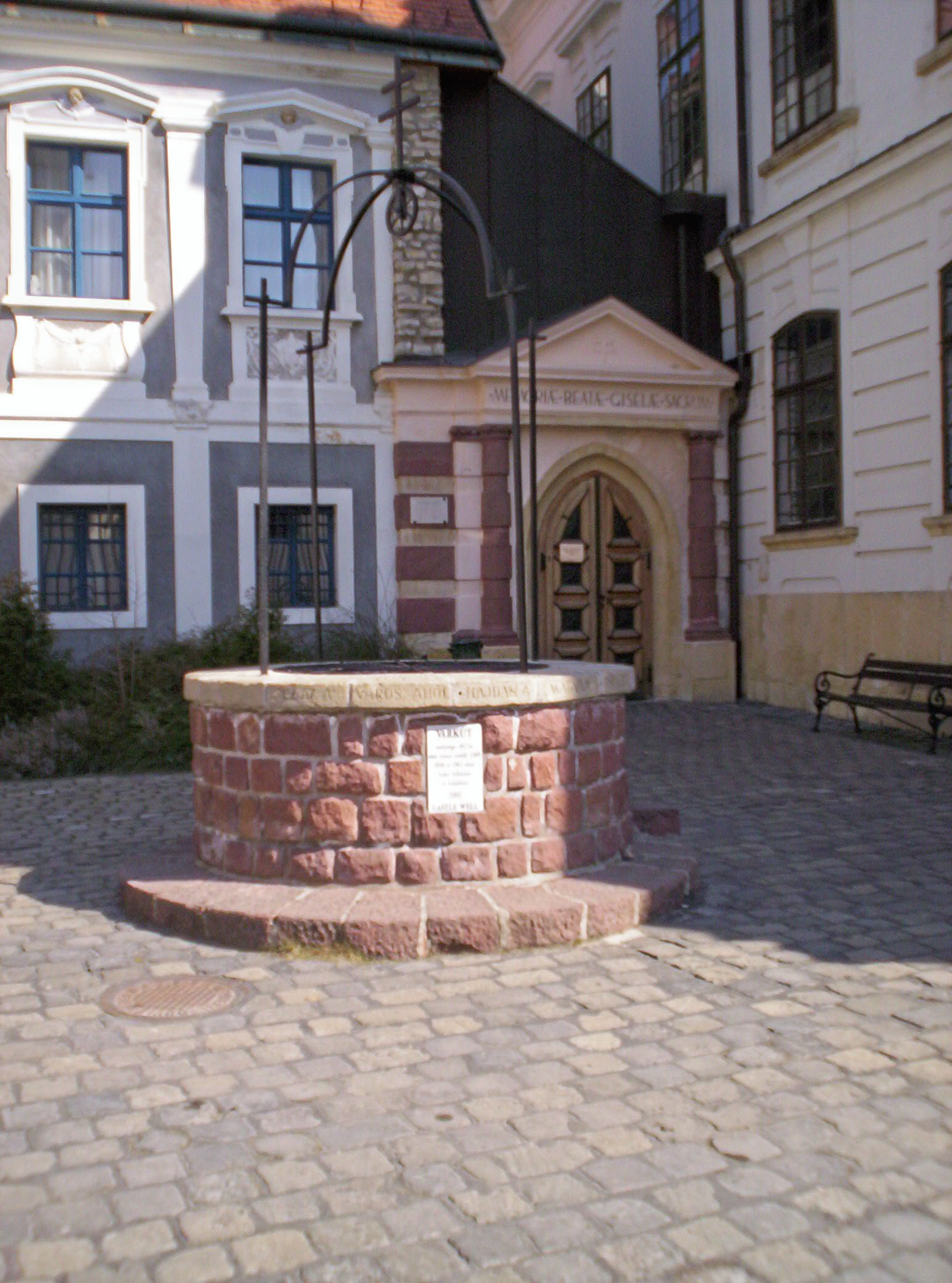 Description: The 41 metres deep Castle Well and the Gisela Chapel in the background, Veszprém